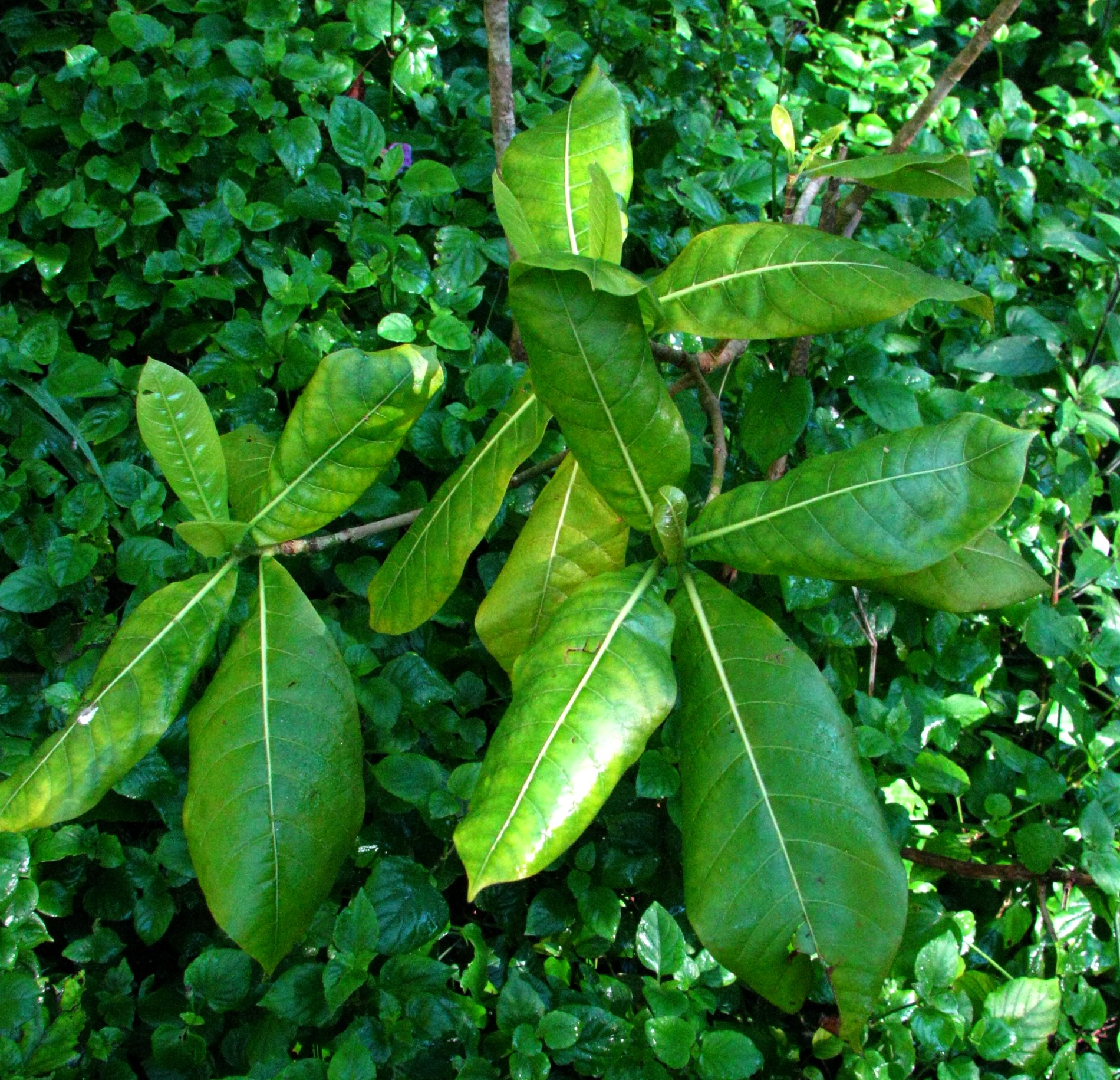 Nānū, nāʻū, or Mann's gardenia Rubiaceae Endemic to the Hawaiian Islands (Oʻahu only) Oʻahu (Cultivated)